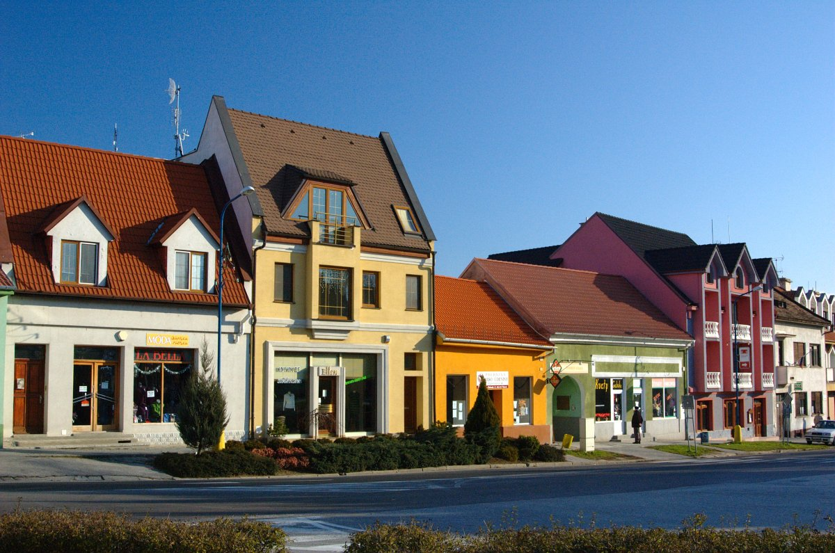 Vrbové, city centre